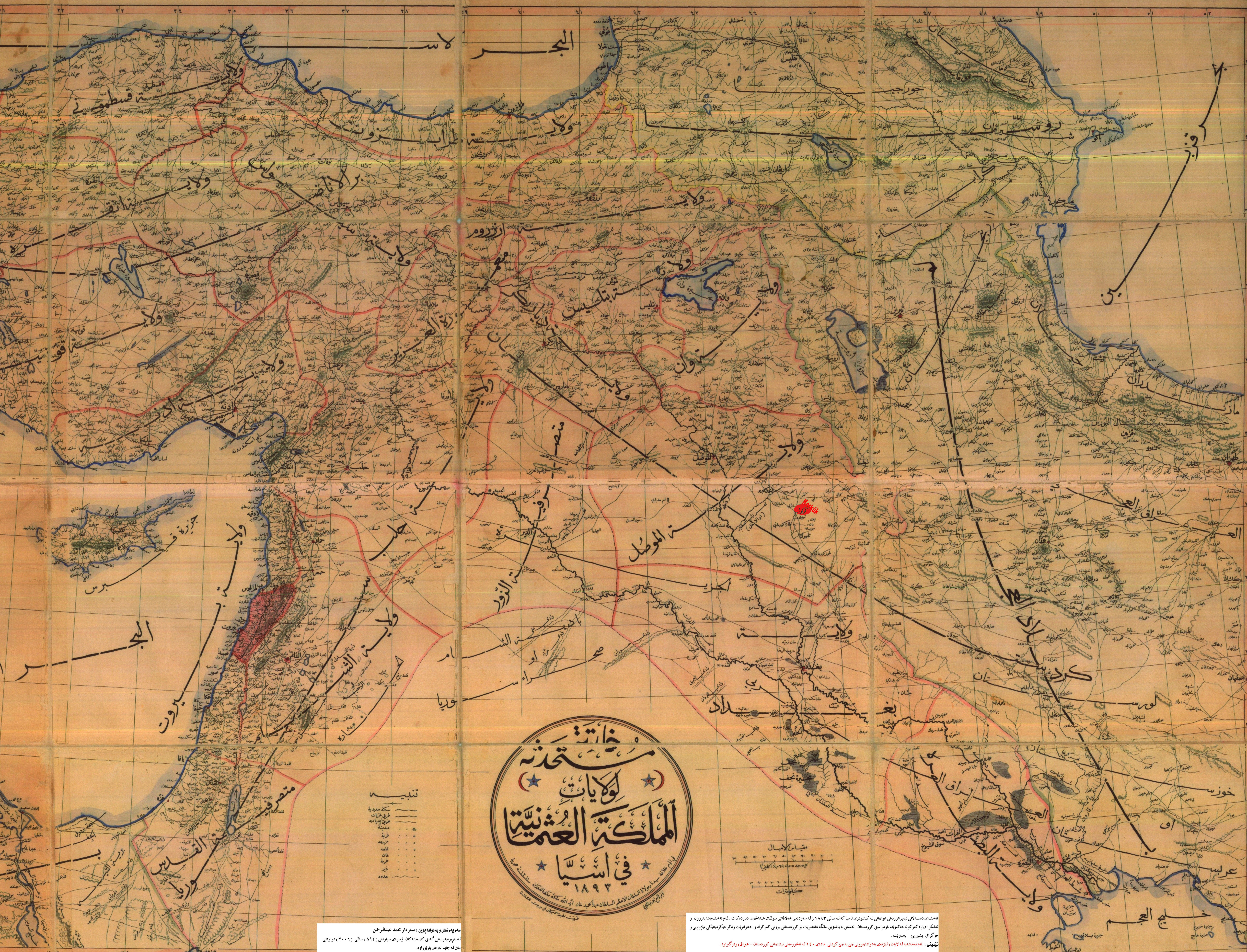 An Ottoman-era (1893) map of the Middle East, with the city of Kirkuk highlighted in the Mosul Vilayet